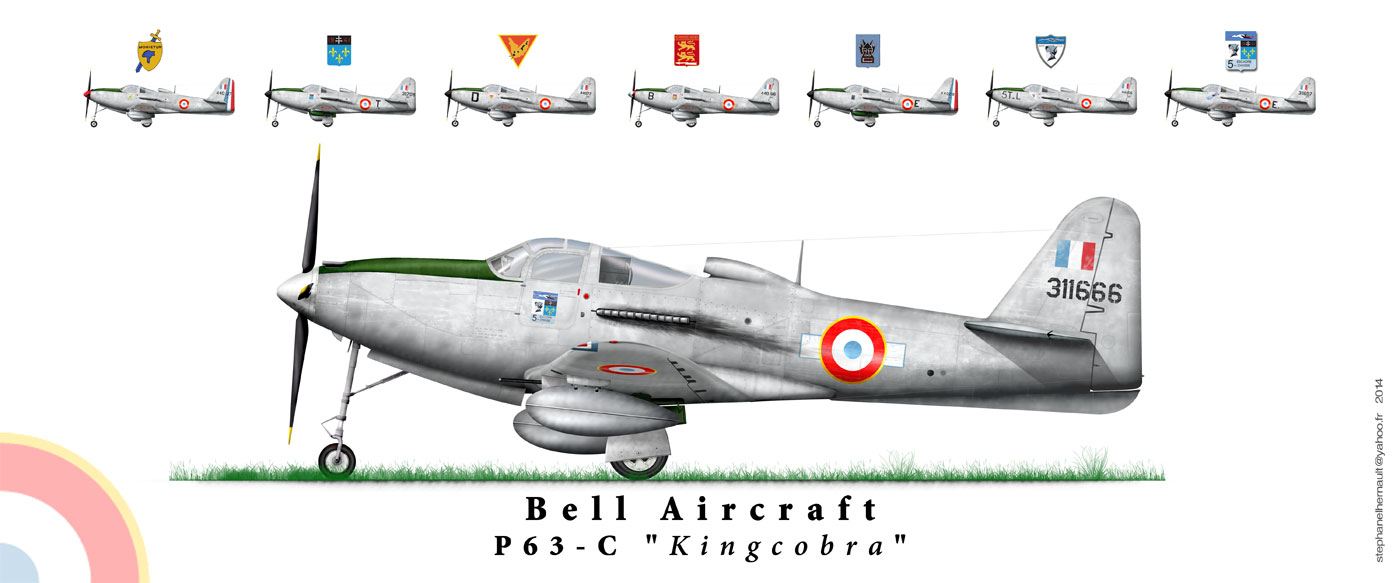 P63C Kingcobra French Armée de l air Units